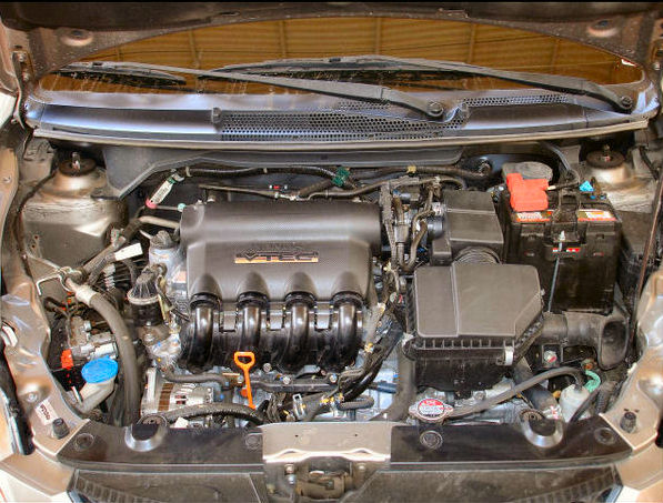 1.5L VTEC Engine